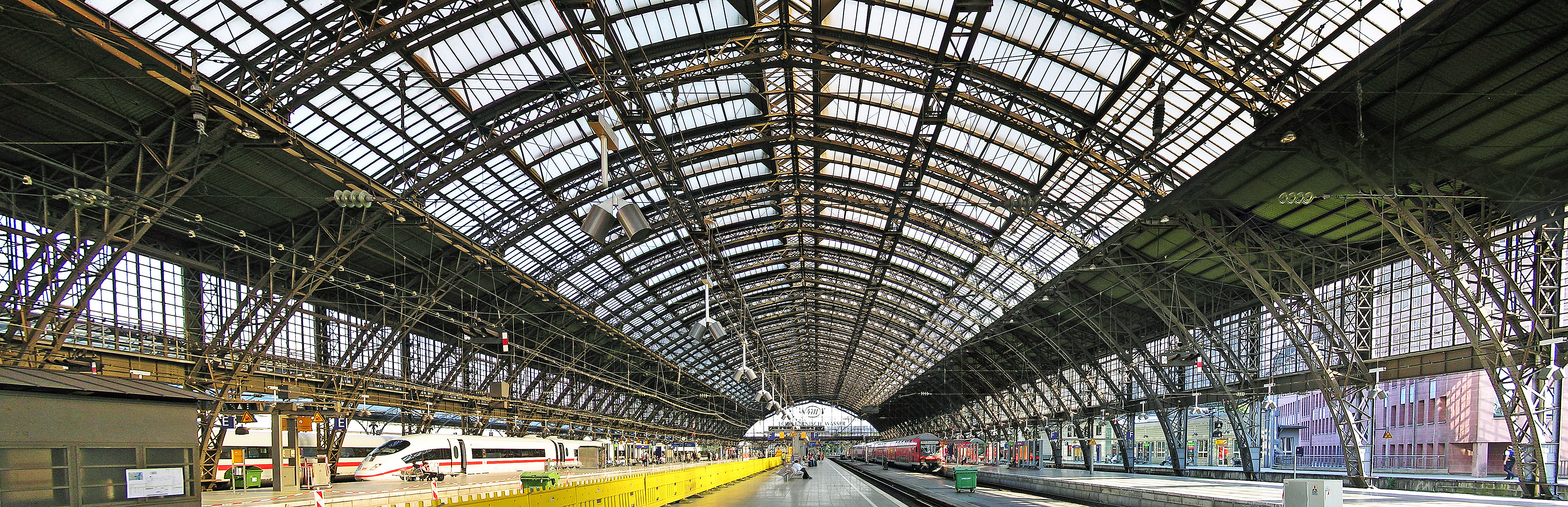 Central Railway Station, Cologne, Germany. An ICE 3 train seen from the left side